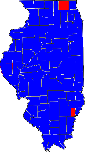 1990 Illinois Senate election results by county.